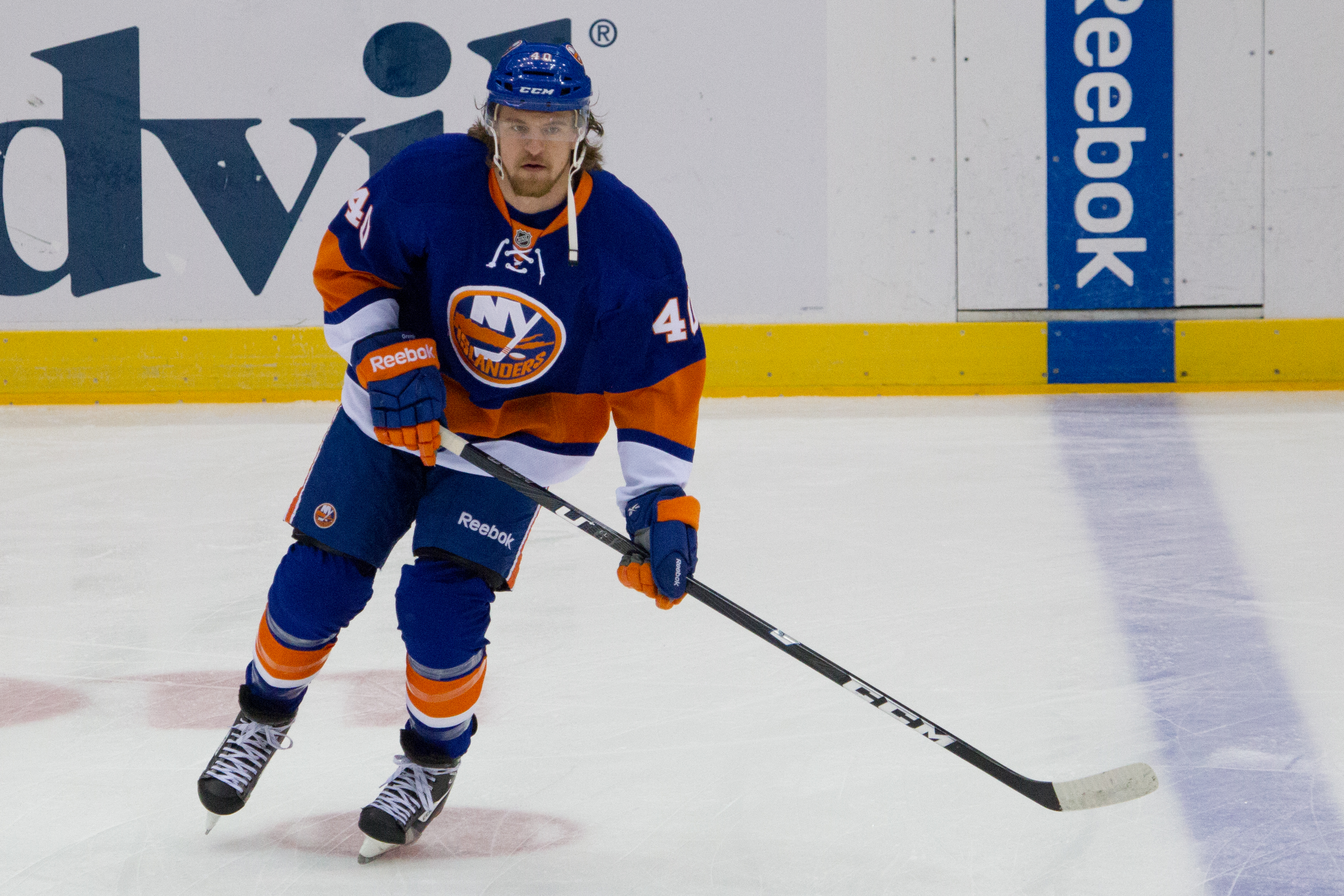 40 Michael Grabner